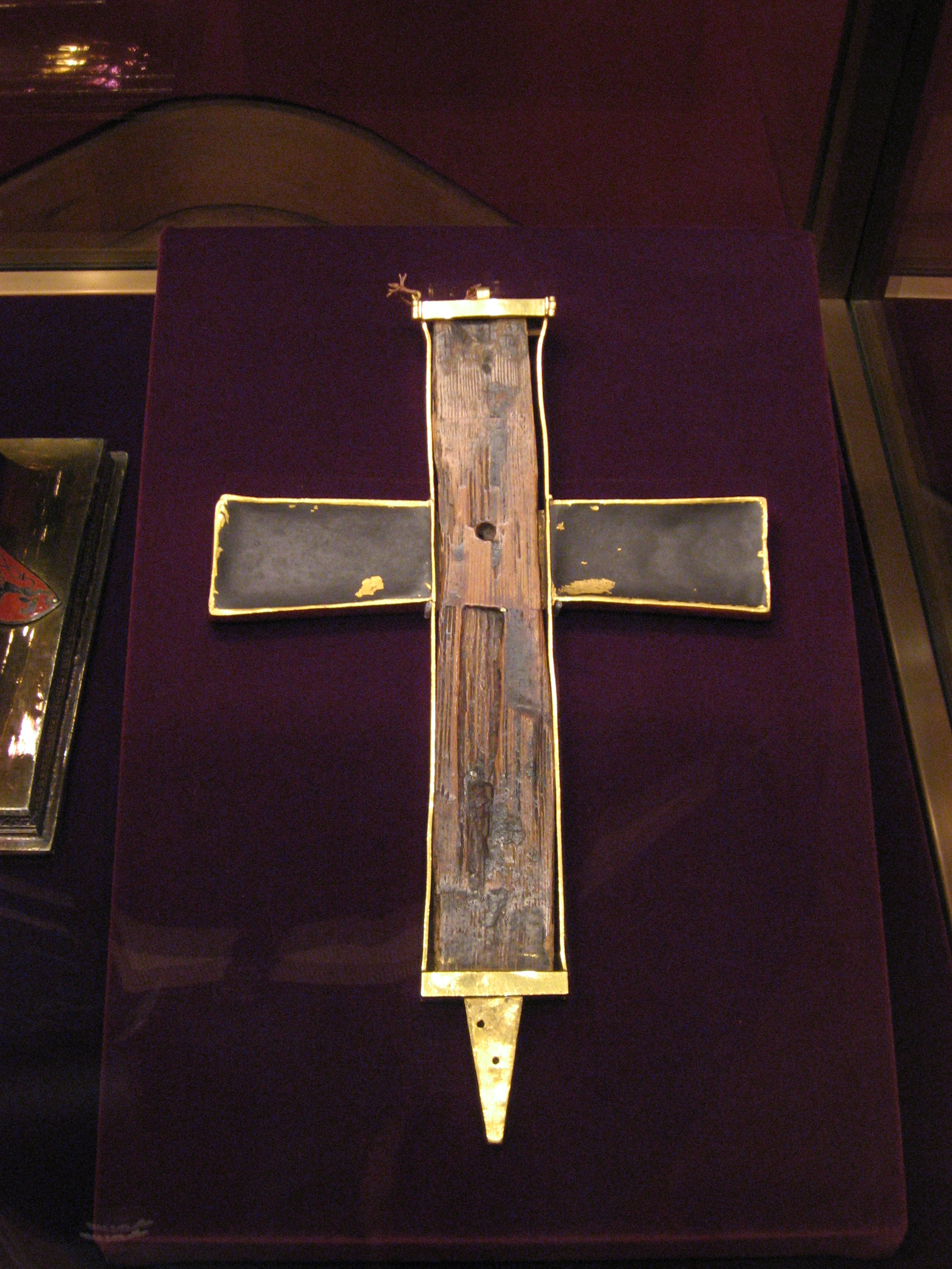 Particle of the True Cross, which was kept within the Imperial Cross SK Inv. No. XIII 21